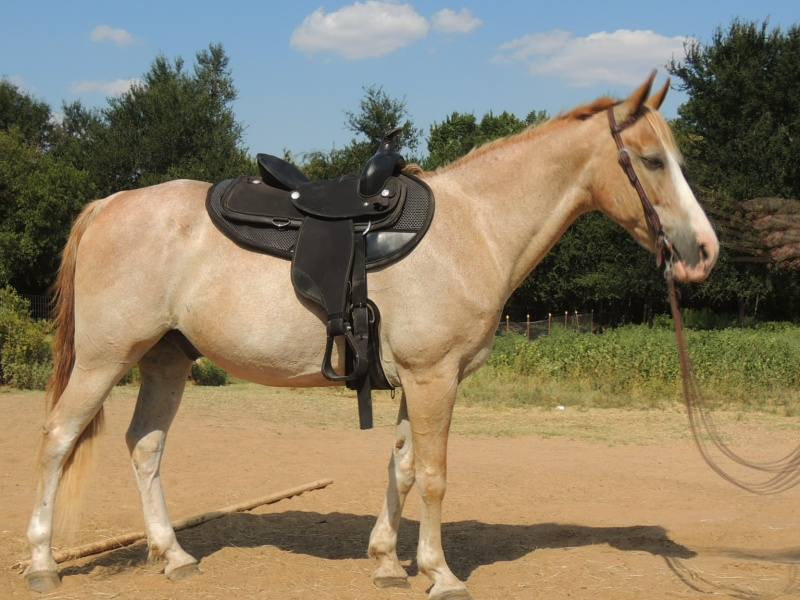 13 years old gelding, red roan color